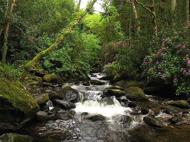 Torc Waterfall at Killarney National Park. This beautiful waterfall surrounded by wild Rhodadendrons, is very accessible. Geographical data: Subject Location Irish: V 96577 84729 [1m precision] WGS84: 52:0.3156N 9:30.4296W